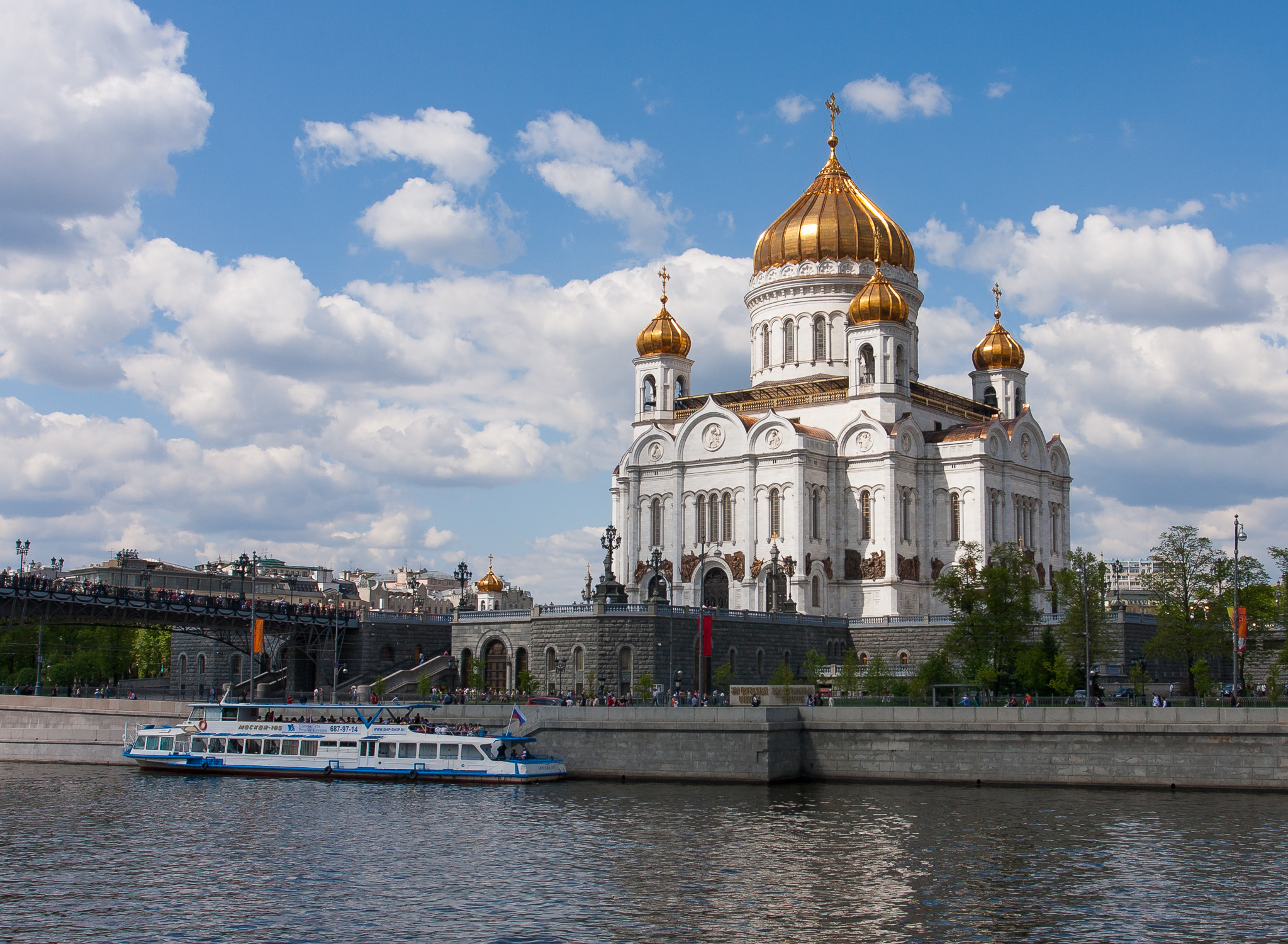 Cathedral of Christ the Saviour / Moscow, Russia